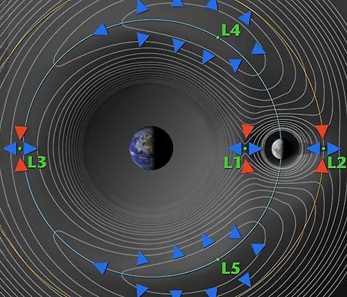 A contour plot of the effective potential of a two-body system. (the Earth and Moon here), showing the 5 Lagrange points. Orginal work Image:Lagrange points.jpg from: - Retrieved March 31, 2006. Edited by Vulpecula, retouched by Madacs.